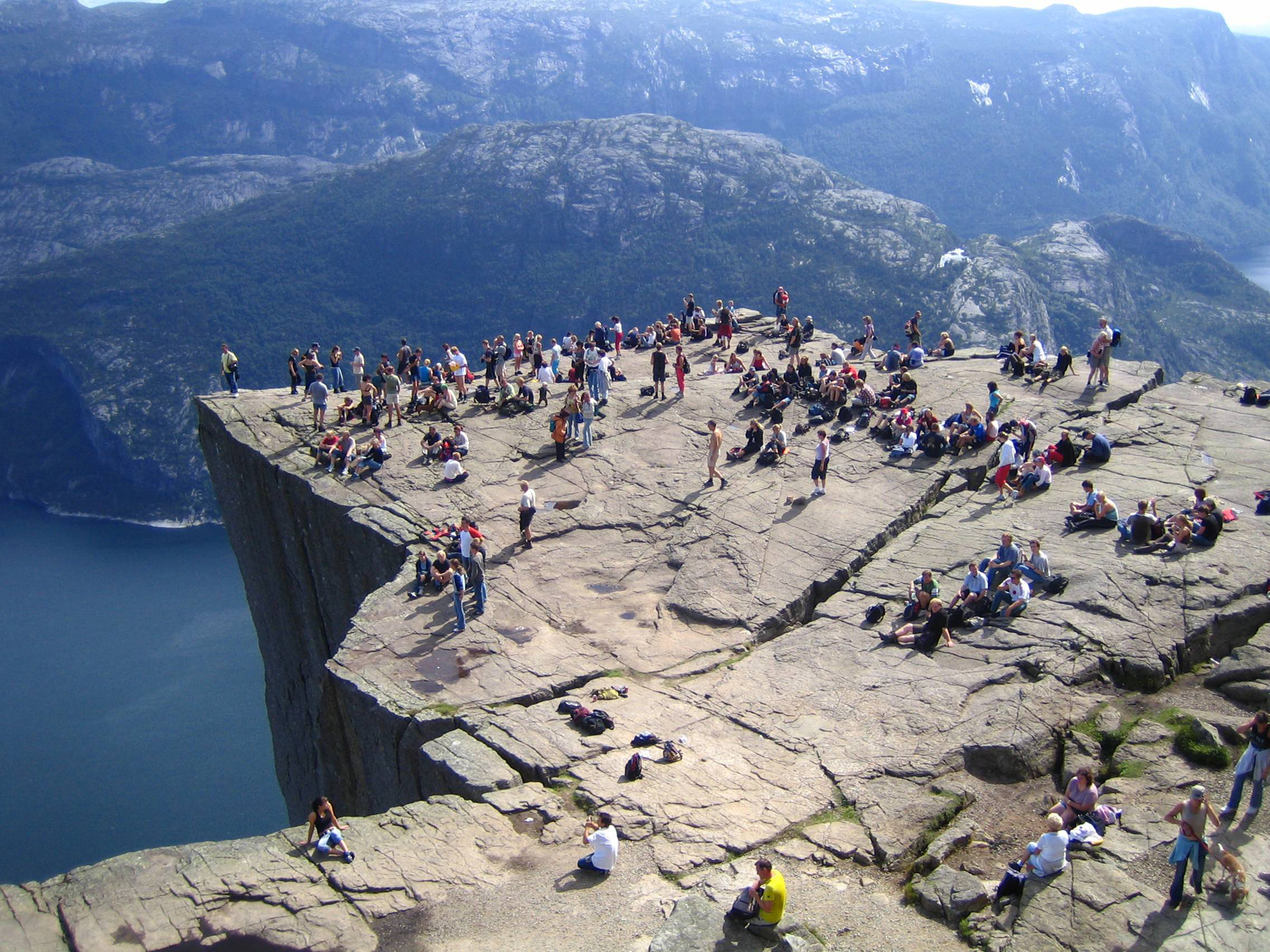 Description: Preikestolen, Norway Source: own photography Date: 2005-08-08 Author: Schue